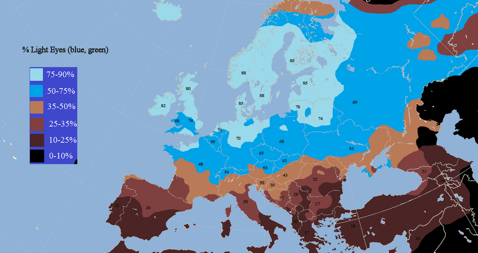 The individual numbers on the map correspond to the frequency of light eyes in each respective country. Compiled in the early 21st century and is therefore likely to be the most relevant on the subject. The individual numbers on the map correspond to the frequency of light eyes in each respective country, I would estimate a margin of error of 5% either up or down for the individual numbers. Please note that the map does not take into account contemporary immigration to Western Europe nor do I know if it takes into account the Romani population in the Balkans. Nevertheless, let me offer a few minor corrections: 1. Data for the Murmansk region in Russia and for Finnmark/Troms in Norway seems to correspond to the ethnic Sami minority, however, since Russians and Norwegians today form the dominant ethnic groups in each respective region the real data is likely closer to the national figures for Norway and Russia. 2. I very much doubt the contrast between southern Ukraine along the Black Sea and northern Ukraine is that striking, I do not have reason to believe Ukrainians or Russians living in the Donetsk region are less fair-eyed than those around Kiev. 3. The data for Italy does not take into account mid-20th century inner migration from the southern half to the more industrialized northern half, as a result I have reason to believe that data for the Po Valley region in Northern Italy should today correspond to data from the central parts of the country. 4. I do not know if data for Spain is that contrasting today, due to inner migration I would think the differences between north and south aren't quite as striking, perhaps excluding the Galicia and Andalusia regions.